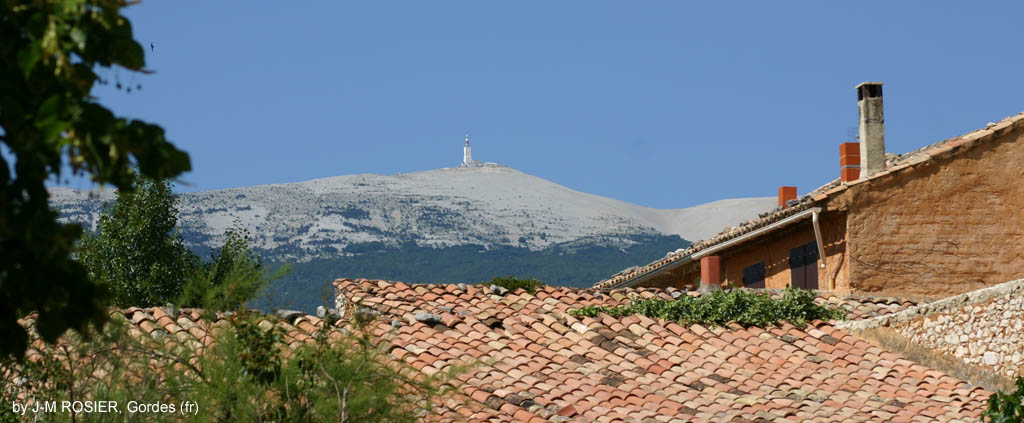 The mont Ventoux over the roofs of the village of Flassan, Vaucluse, France